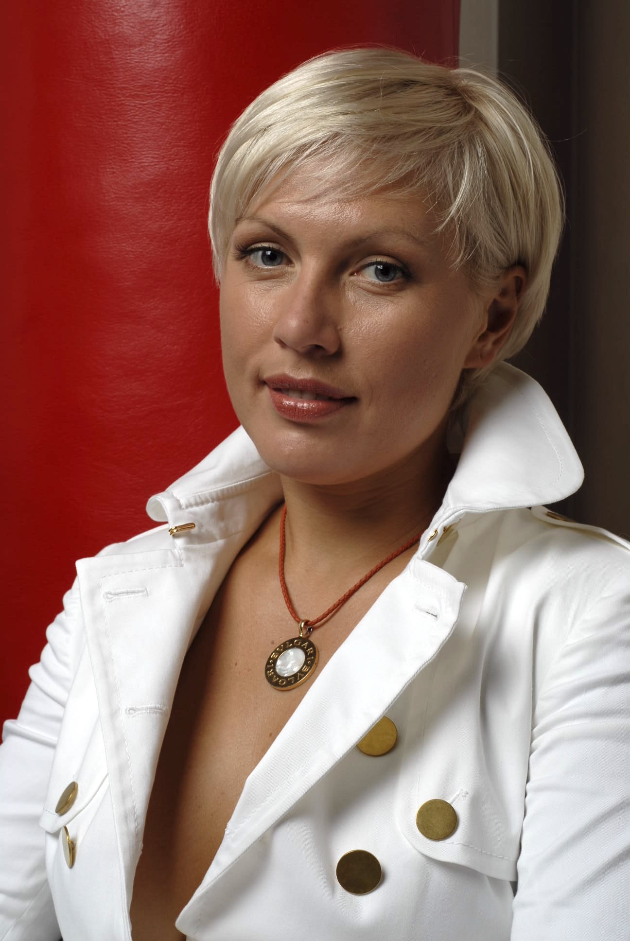 Ragozina Natalia, russian boxer